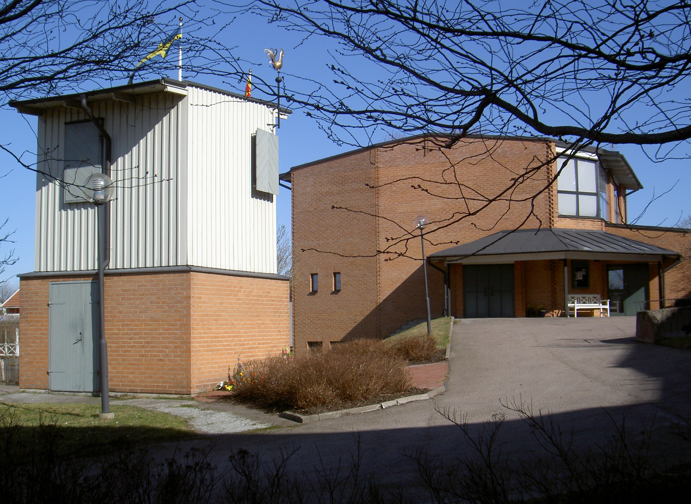 St John's Church, Kalmar.